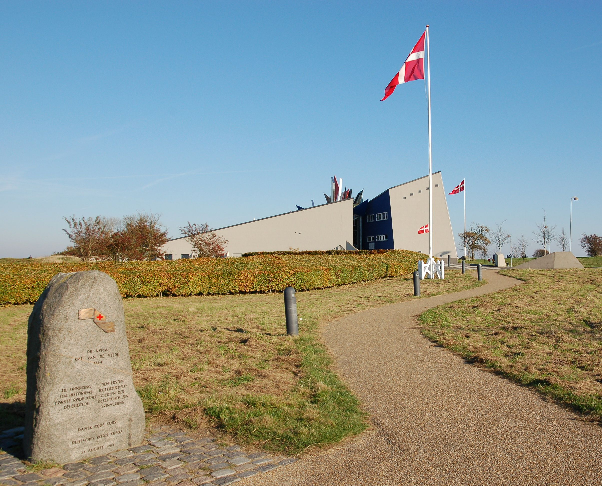 Dybbøl National Memorial, Denmark. In the foreground is the memorial of the first Red Cross action ever in 1864.